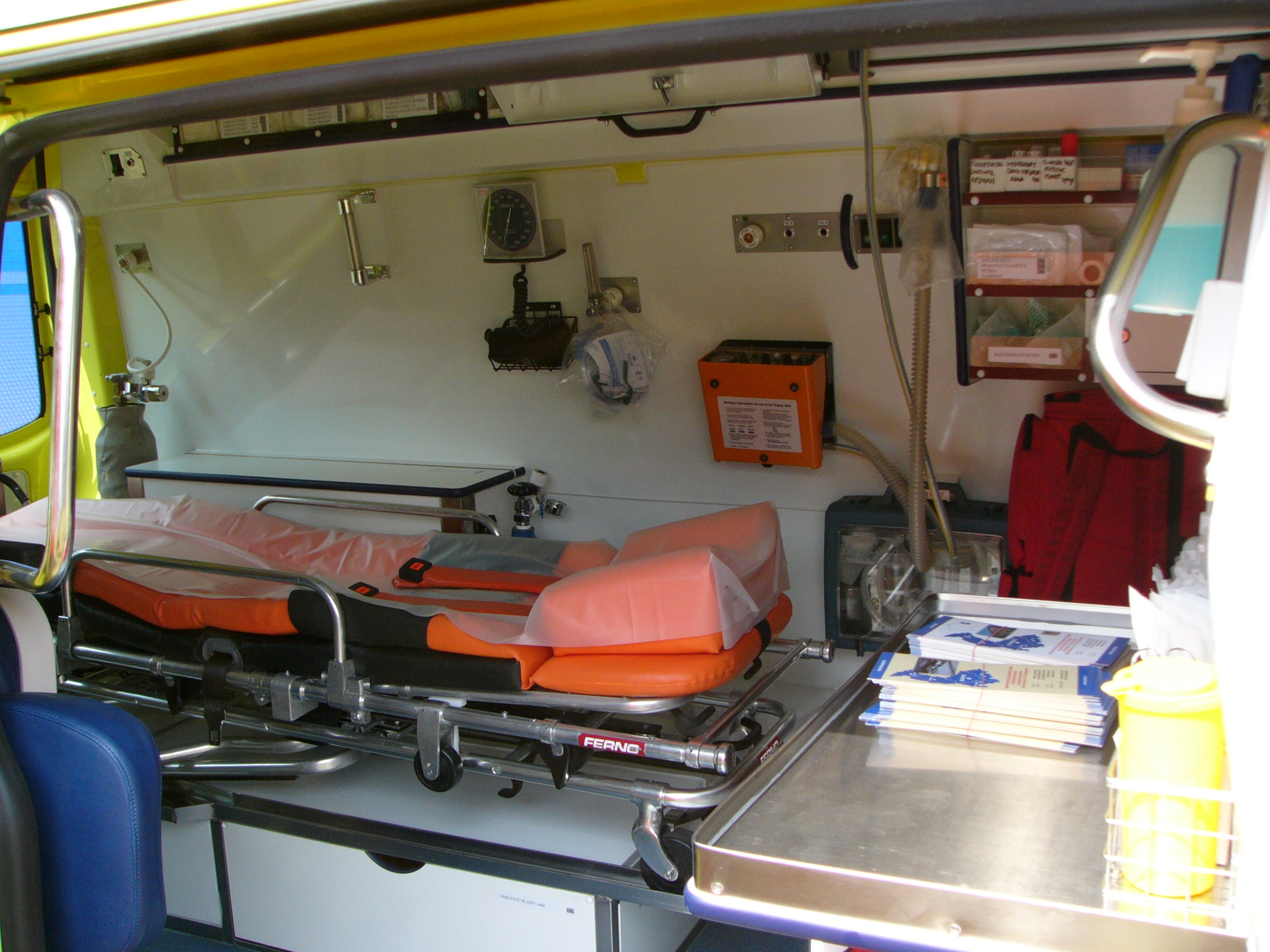 interior of ambulance Volkswagen Transporter (T5) - a car of Emergency medical services in the Czech Republic.